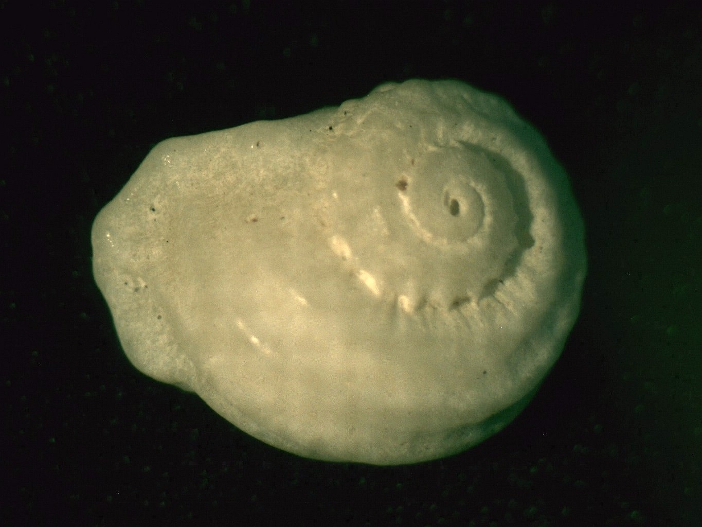 Munditia subquadrata (Tenison-Woods, 1878), a sea snail from the family Liotiidae; South Australia